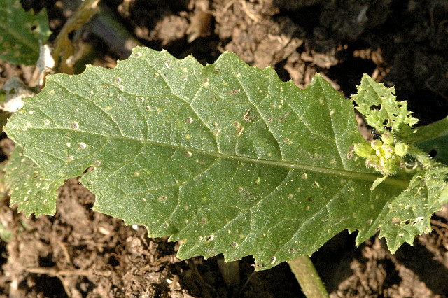 Sinapis arvensis from Commanster, Belgian High Ardennes .